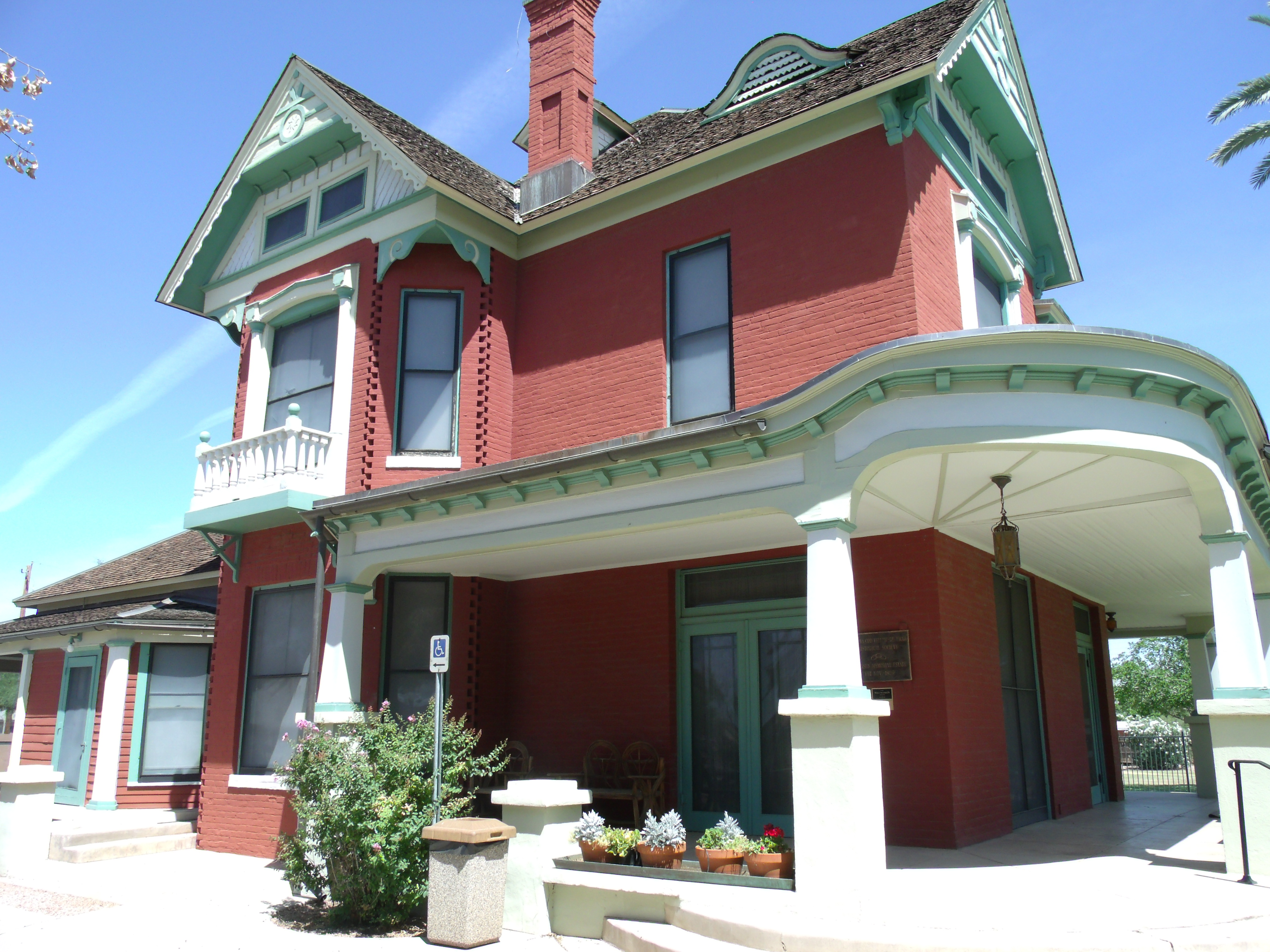 The Niels Petersen House was built in 1892 and is located at 1414 W. Southern Ave. in Tempe, Az. The house was built in 1892 by Niels Petersen, a Danish immigrant who came to Tempe in 1871. He developed a ranch with substantial land holdings, was president of the Farmers and Merchants Bank, co-founder of the Methodist Episcopal Church, and a representative at the 18th Territorial Legislature. Creighton, the architect, worked for many years in Arizona, and among his extant works are the Pinal County Courthouse, Old Main at the University of Arizona, and the Tempe Hardware Building on Mill Avenue in Tempe. It was listed in the National Register of Historic Places on January 5, 1978 reference #78000553.